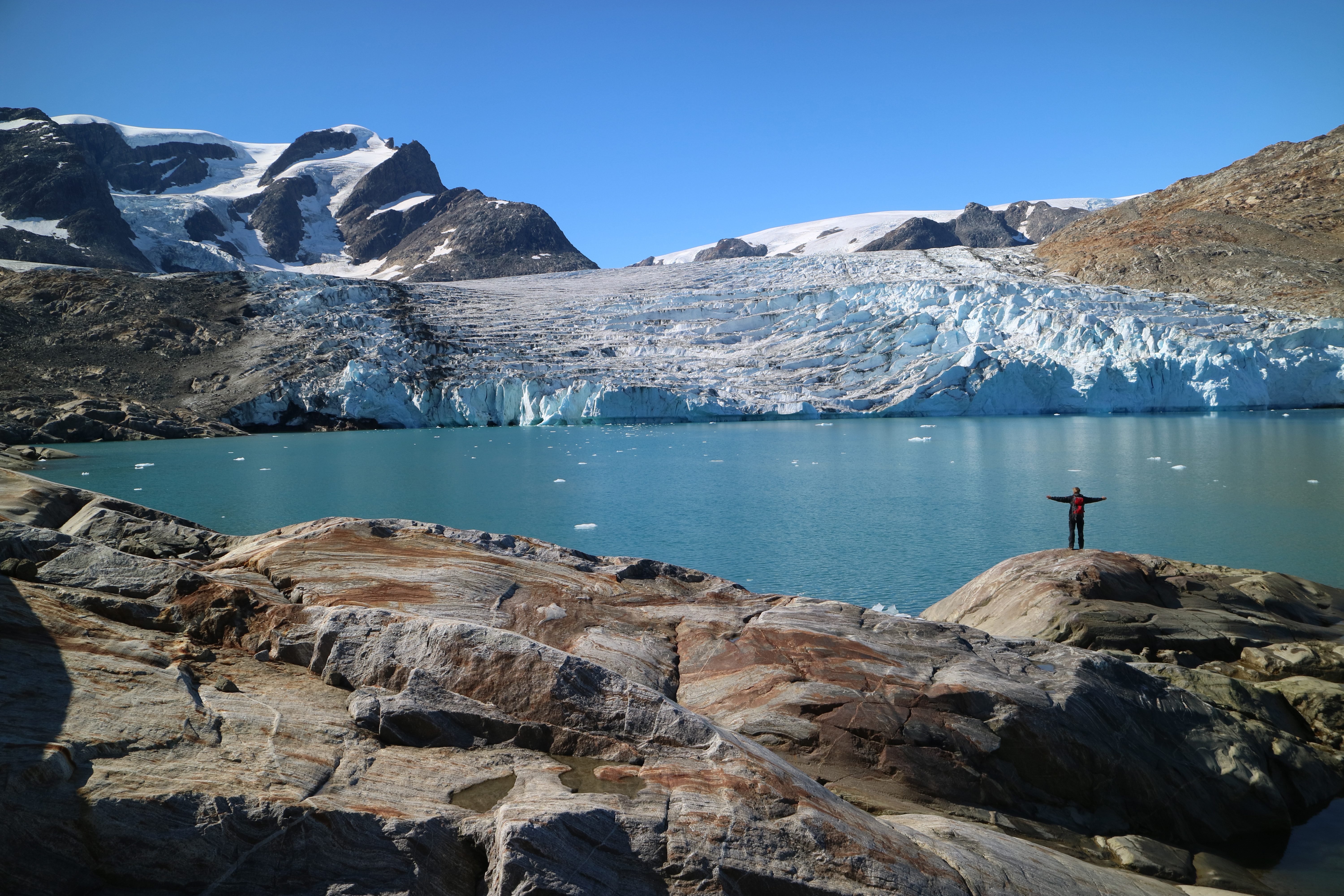 Hann glacier at Johan Petersens Fjord, South East Greenland